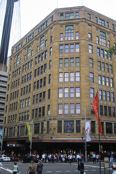 David Jones flagship building at Exlizabeth Street, Sydney